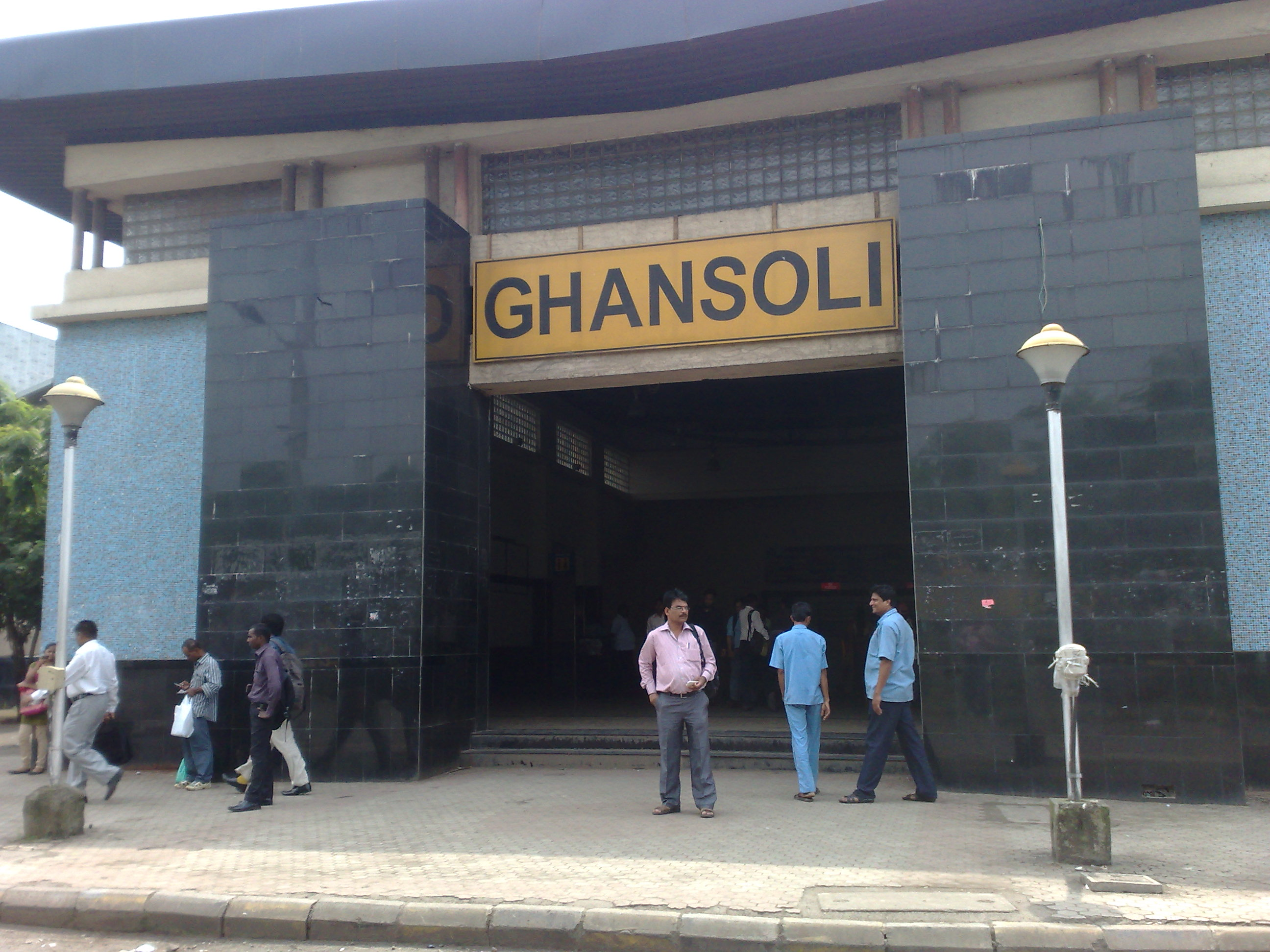 Entrance - Ghansoli